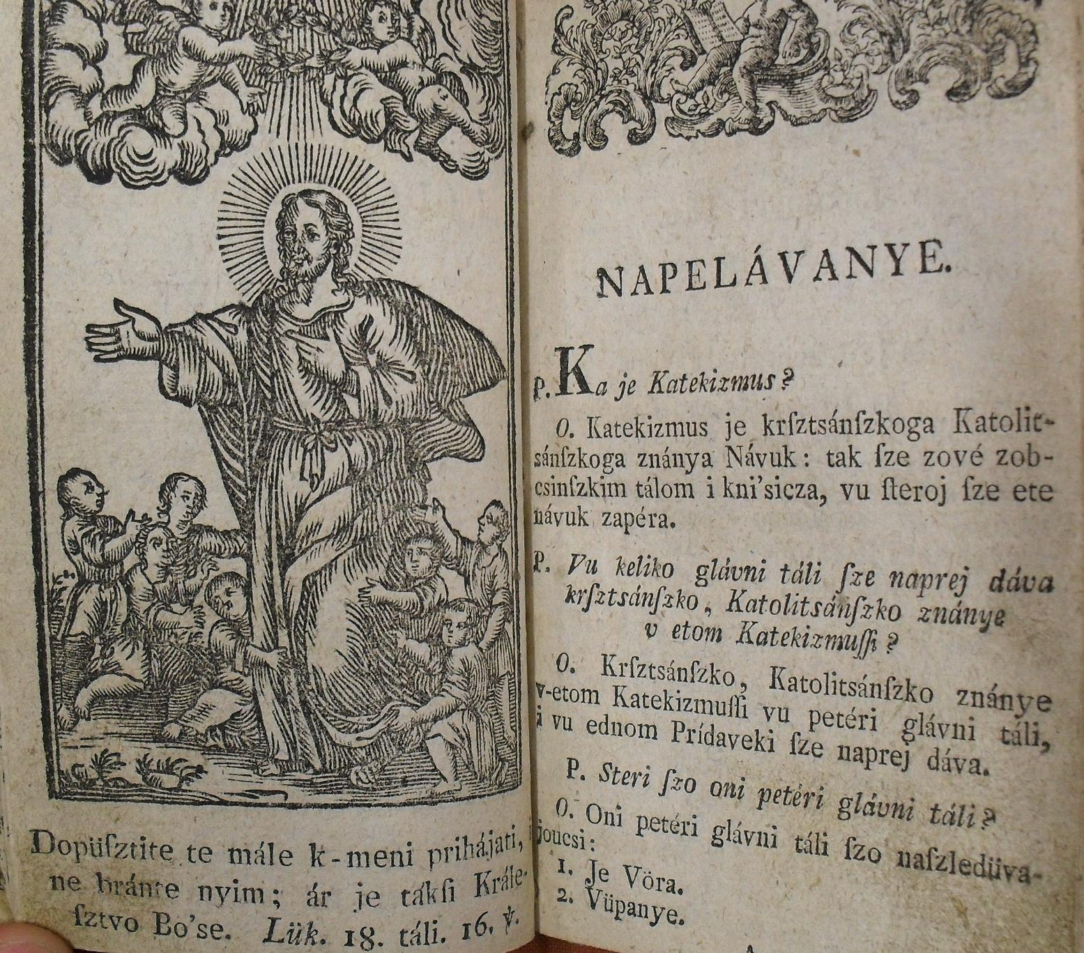 First page of the Krátka summa velikoga katekizmussa (1804) of Miklós Küzmics. Under the Jesus picture citation from Luke 18,16